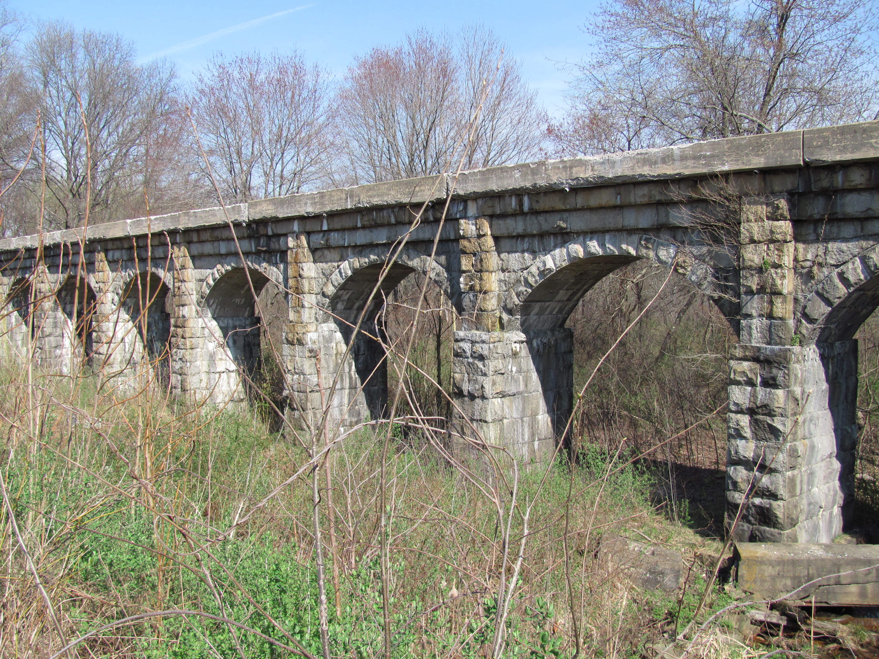 Stone arched bridge - off Woodland Street in Holliston Massachusetts - it formerly carried the Milford Branch of the Boston and Albany Railroad